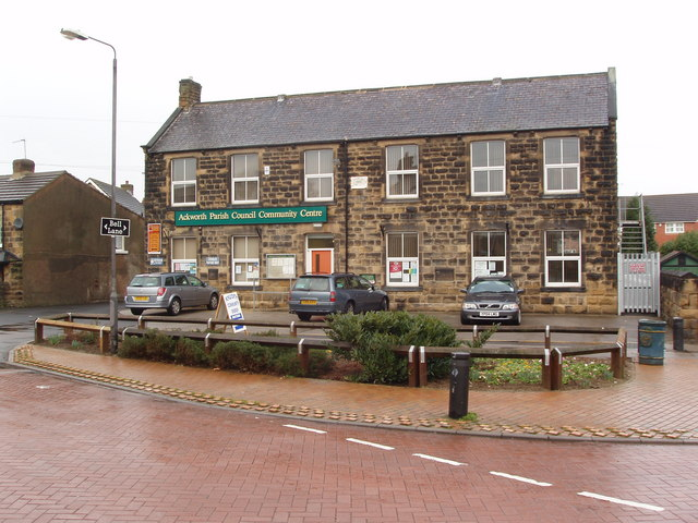 Ackworth Parish Council Community Centre A venue for a wide variety of village activities, public and private.